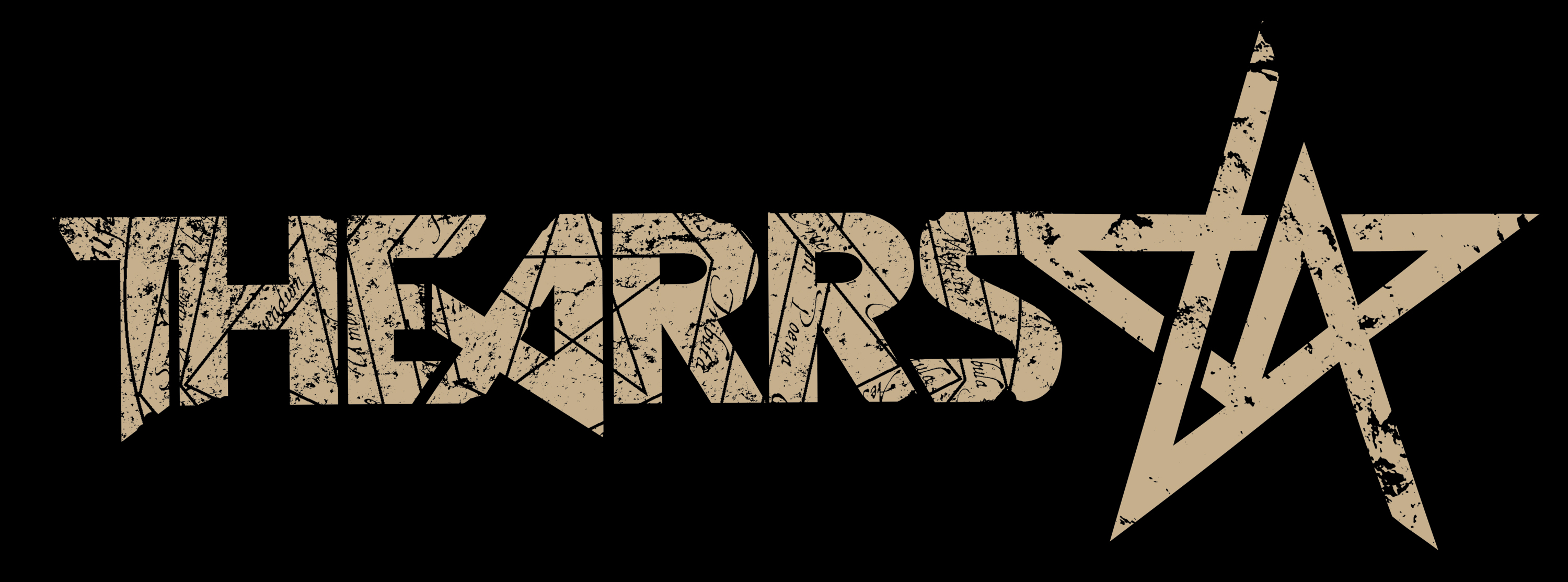 THE ARRS logos